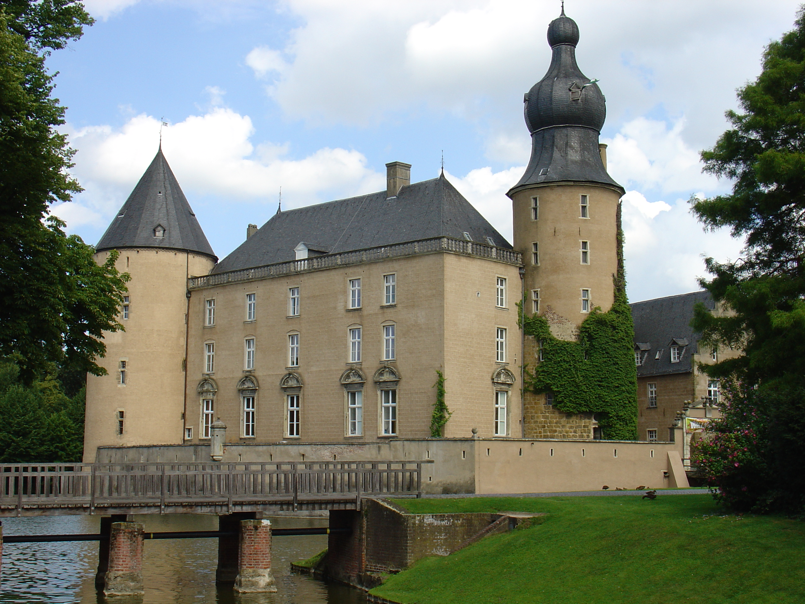 Castle Gemen in the city of Borken, view from southwest